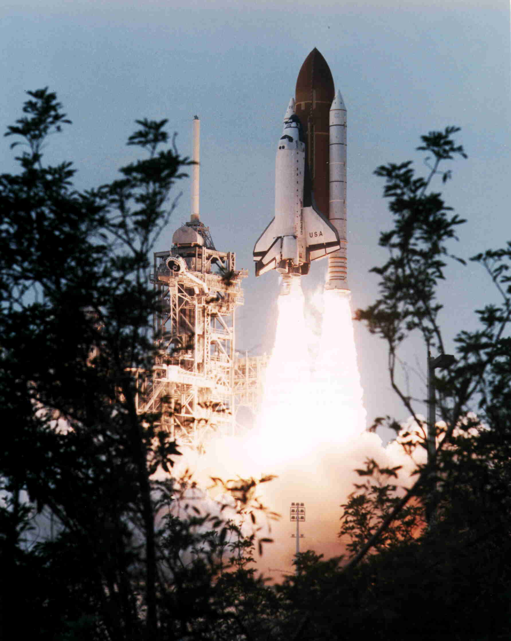 The Space Shuttle Columbia hurtles skyward from Launch Pad 39B. Columbia lifted off right on time at 3:18:00 p.m. EST, Feb. 22, following a smooth countdown. NASA's second Shuttle mission of 1996 and the 75th overall in Shuttle program history will be highlighted by the re-flight of the Tethered Satellite System (TSS-1R) designed to investigate new sources of spacecraft power and ways to study Earth's atmosphere. Mission STS-75 also will see Columbia's seven-person crew work with the U.S. Microgravity Payload (USMP-3), which continues research efforts into development of new materials and processes that could lead to a new generation of computers, electronics and metals. The STS-75 crew includes: Mission Commander Andrew M. Allen; Pilot Scott J. "Doc" Horowitz; Payload Commander Franklin R. Chang-Diaz; Mission Specialists Jeffrey A. Hoffman, Claude Nicollier and Maurizio Cheli; and Payload Specialist Umberto Guidoni. Nicollier and Cheli represent the European Space Agency (ESA) while Guidoni represents the Italian Space Agency (ASI).